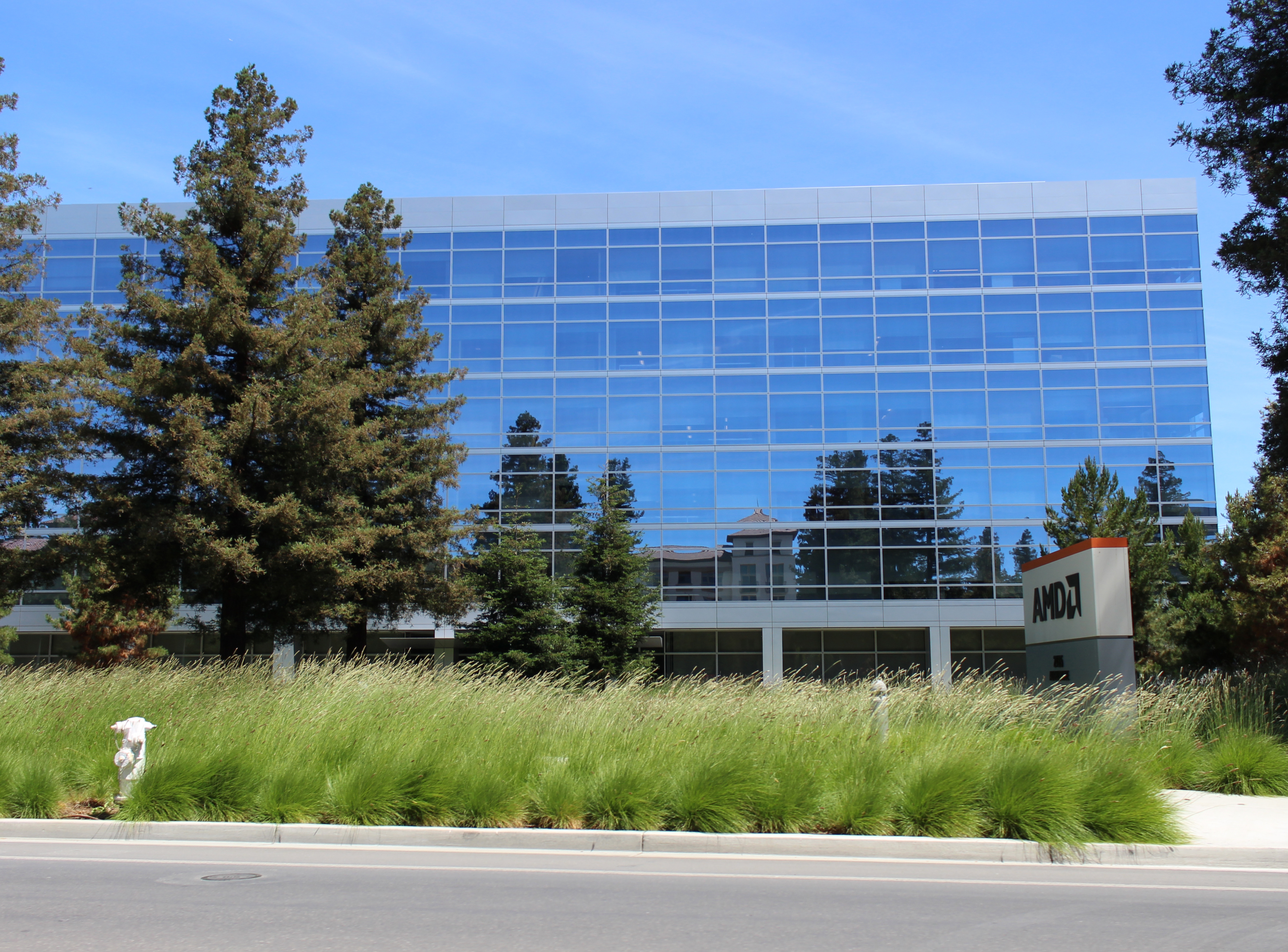 2485 Augustine Drive headquarters in Santa Clara, California. At the time this photo was taken, this office building was home to the headquarters of Advanced Micro Devices, Inc. Photographed on June 21, 2020 by user Coolcaesar.